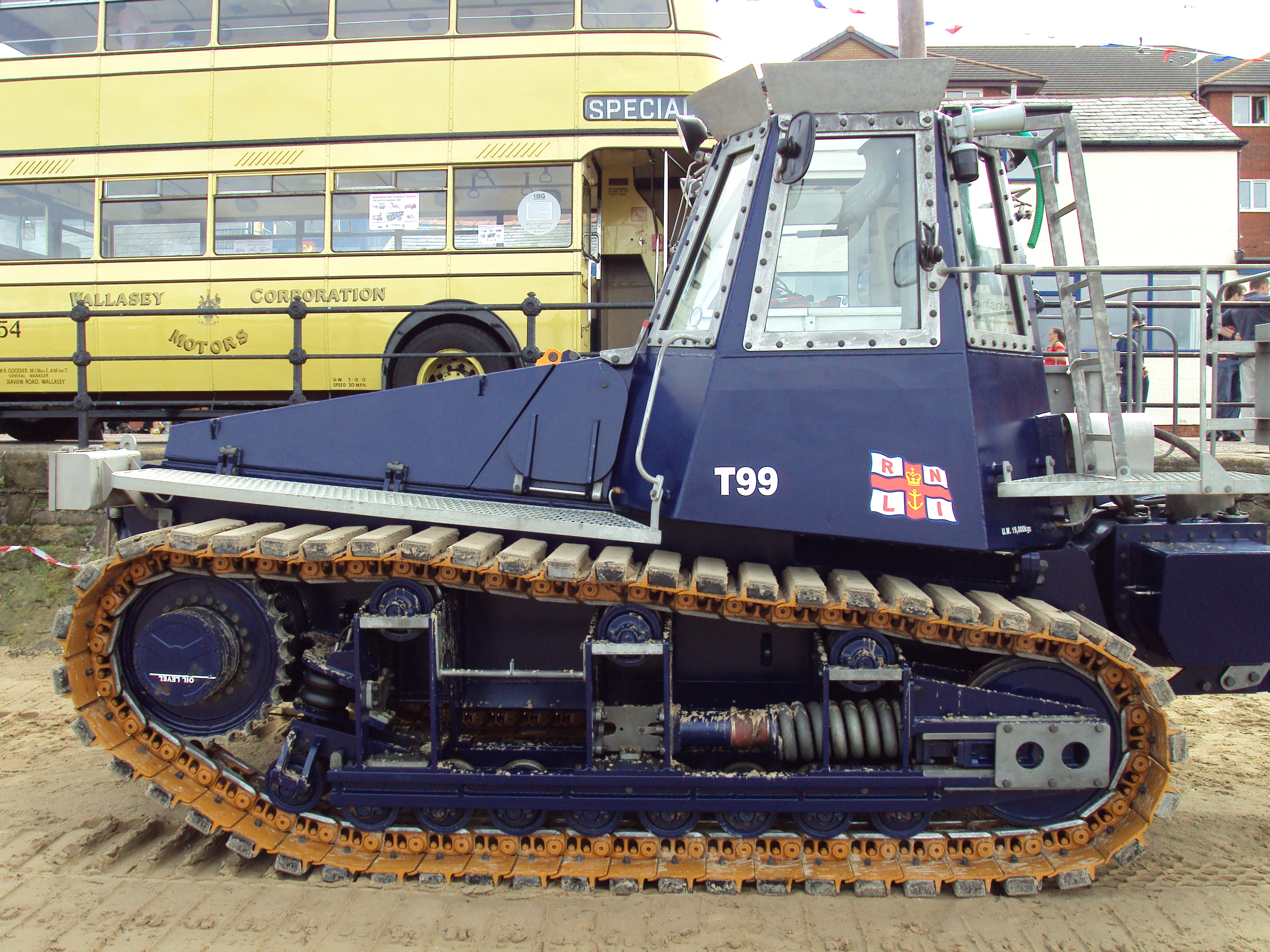 A Talus MB-H Crawler lifeboat-towing tractor on show at the Hoylake lifeboat open day, Wirral, England.